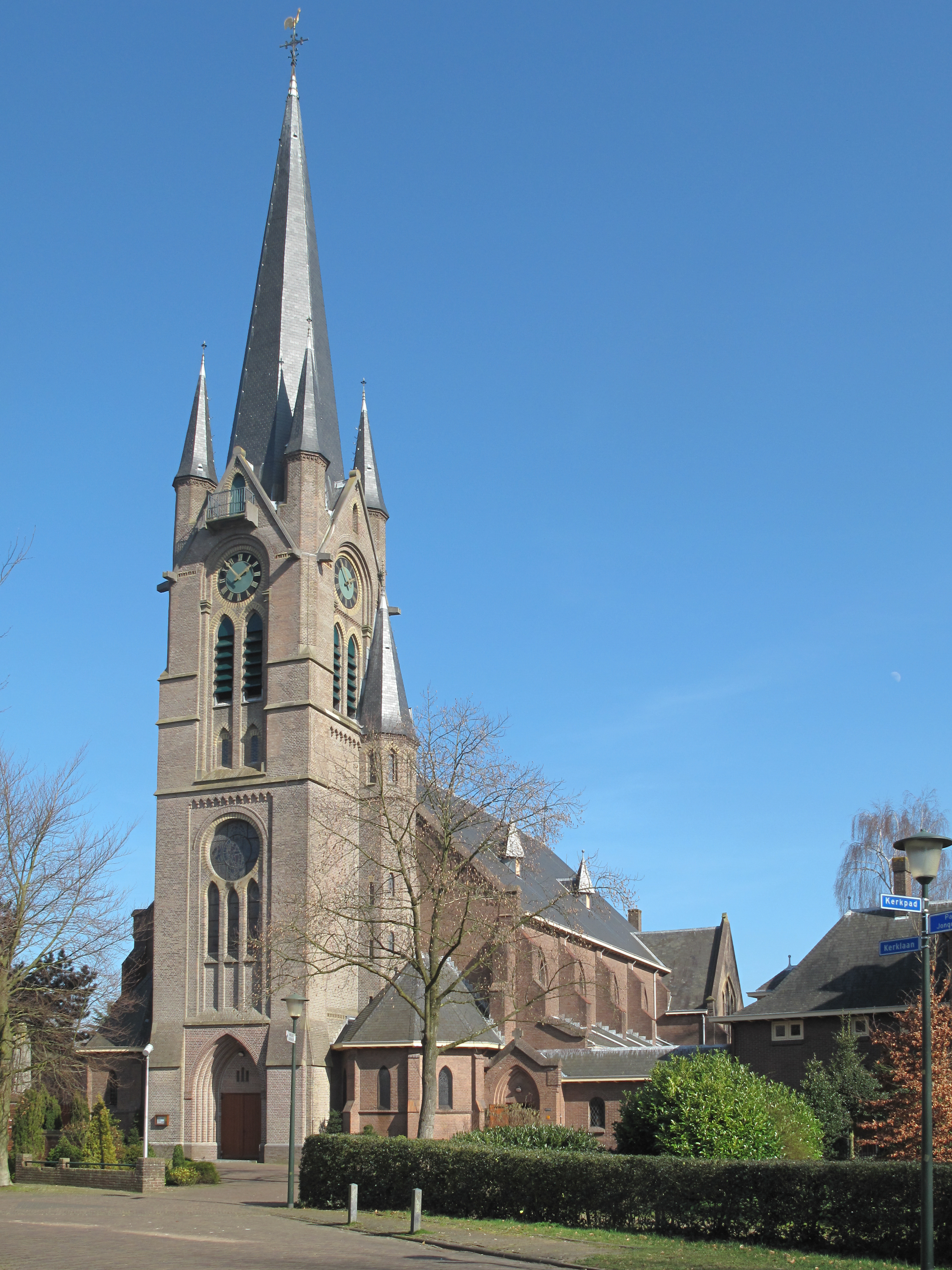 Blaricum, church: de Sint Vituskerk